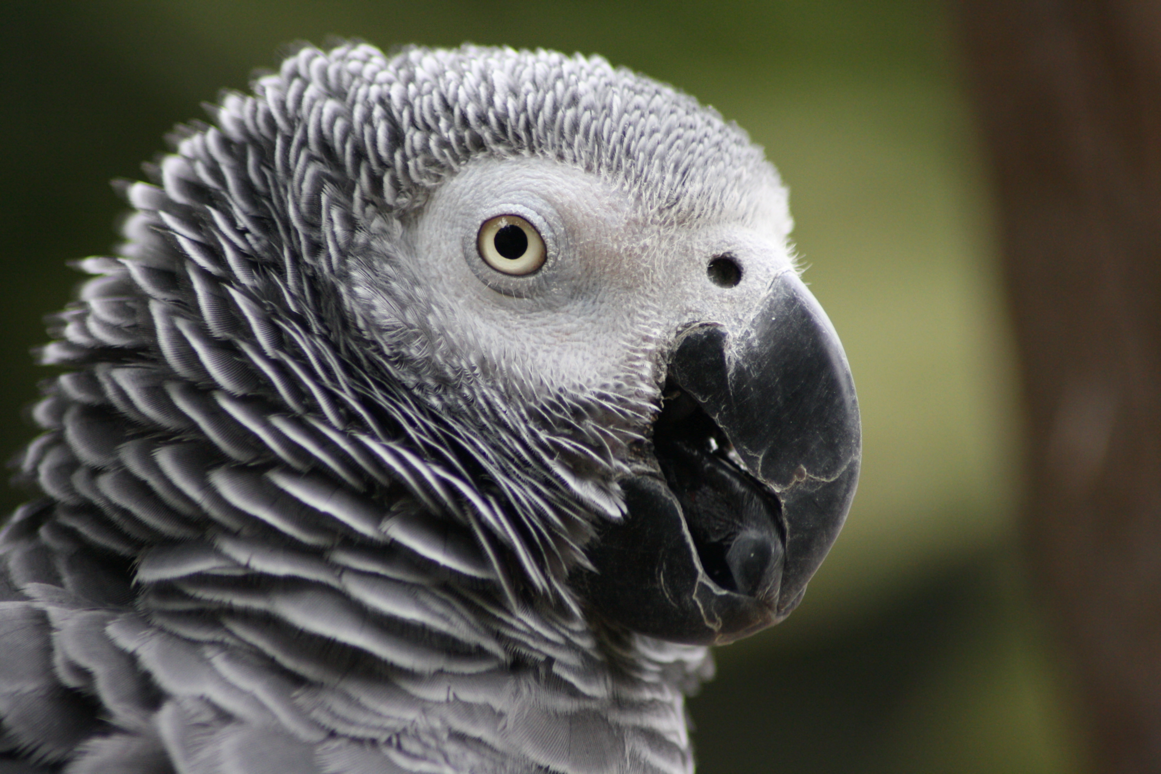 African Grey Parrot (Psittacus erithacus) in captivity (Mondo Verde, Netherlands).